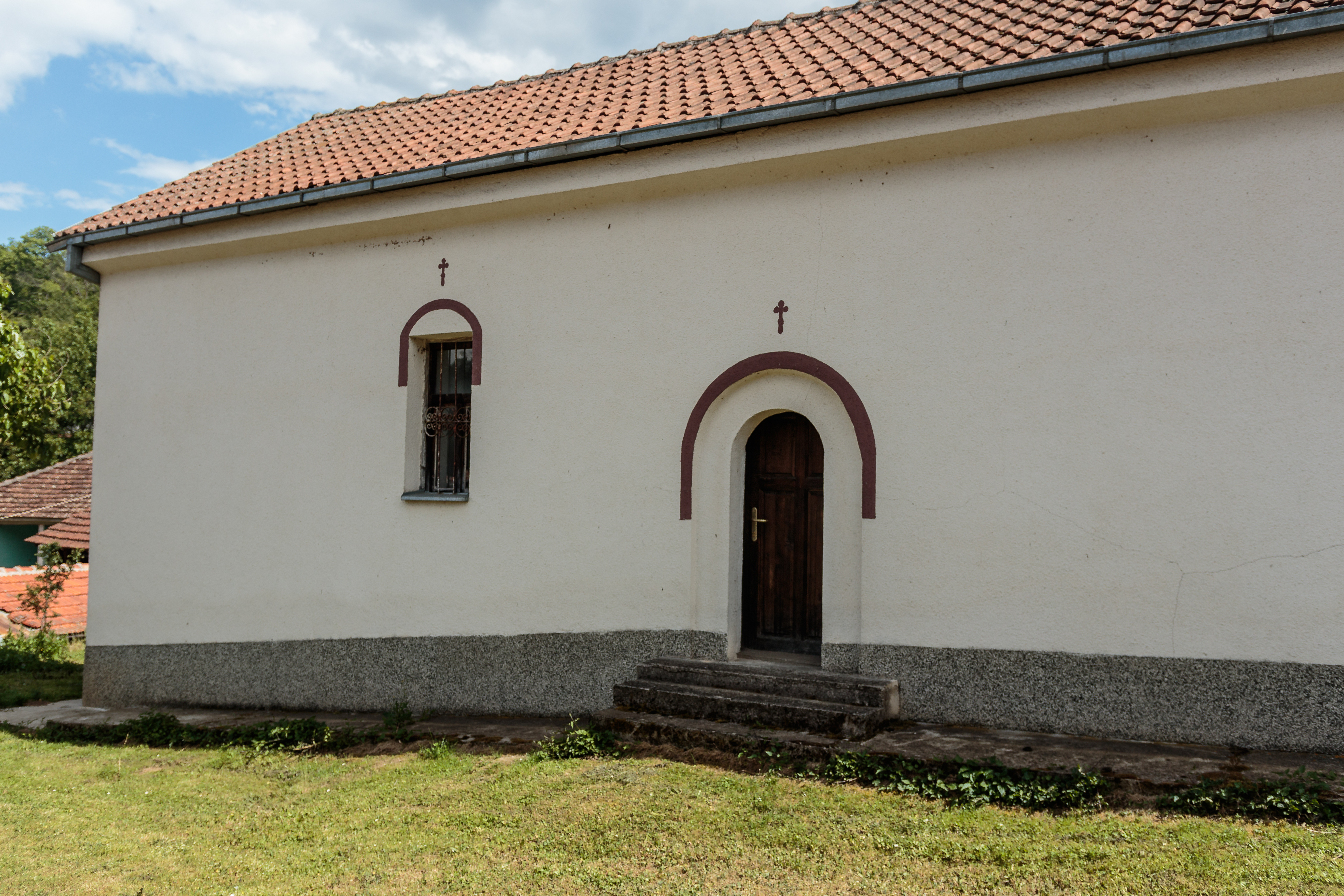 View of the St. Nicholas Church in the village Virovo